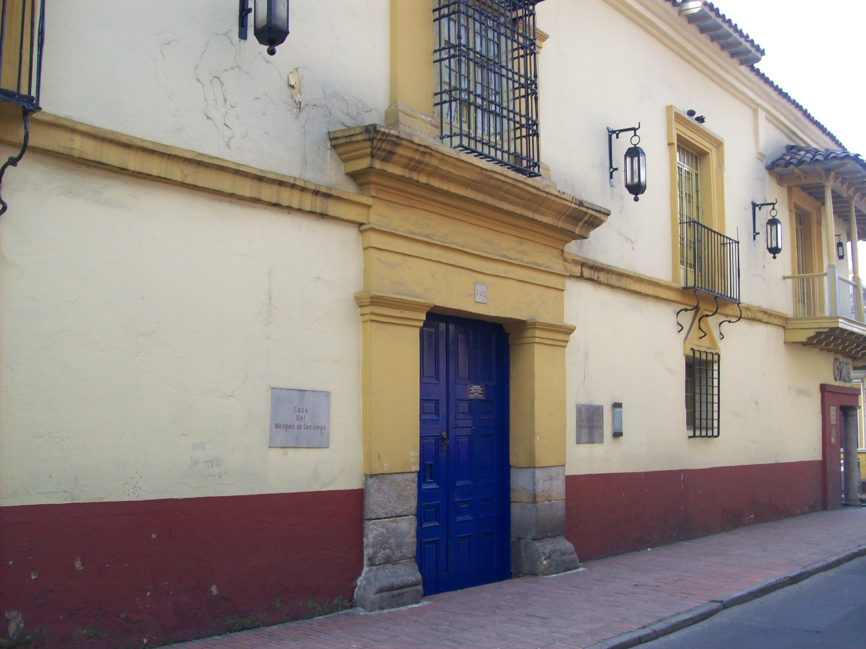 Arqueological Museum House of San Jorge's Marquess